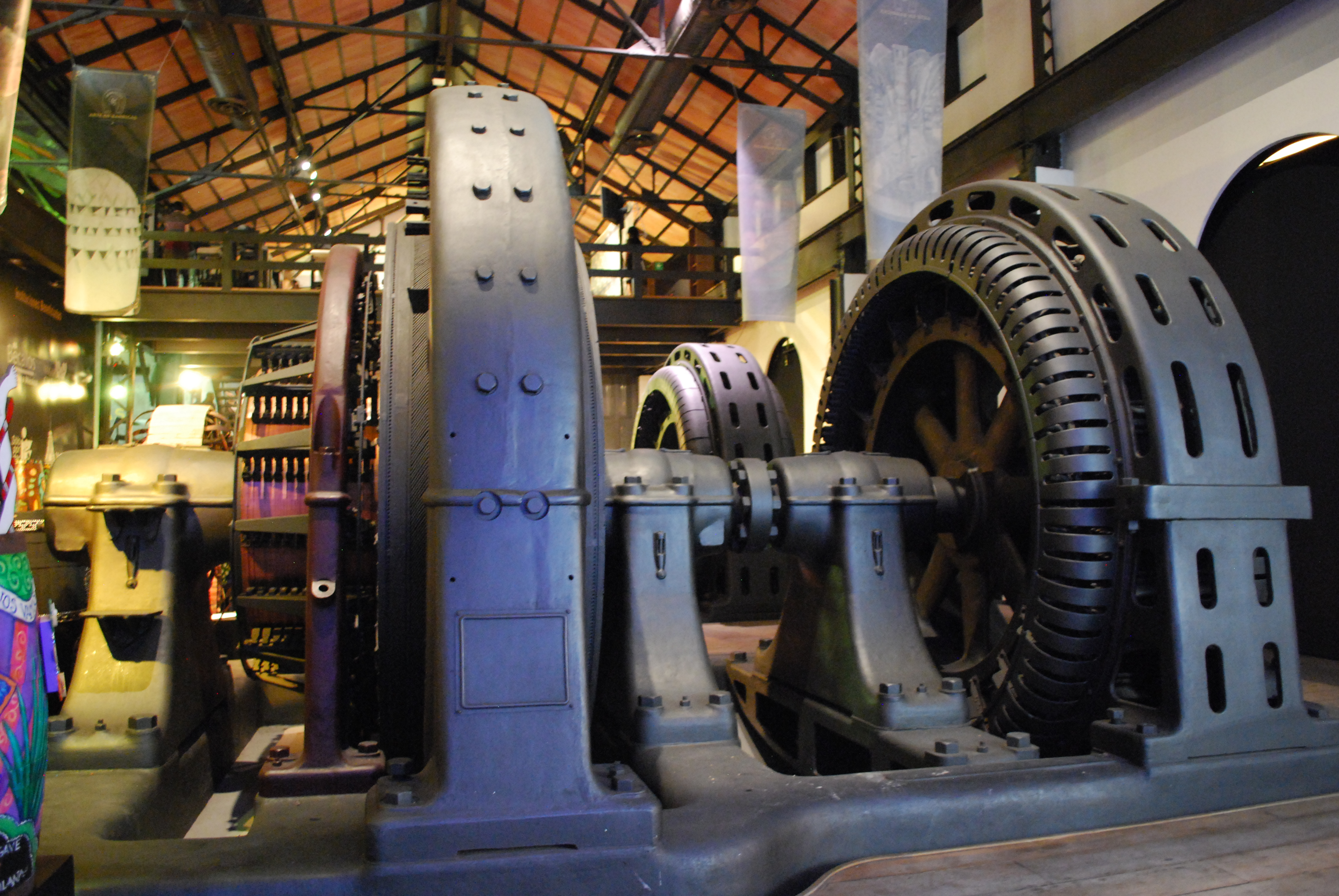 Remains of giant generators at the Centro Cultural Indianilla in Colonia Doctores, Mexico City